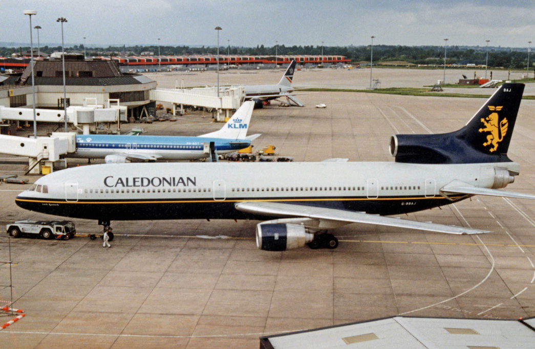 Caledonian Airways (1988) Lockheed Tristar G-BBAJ departing from Manchester Airport on an inclusive tour service in 1993